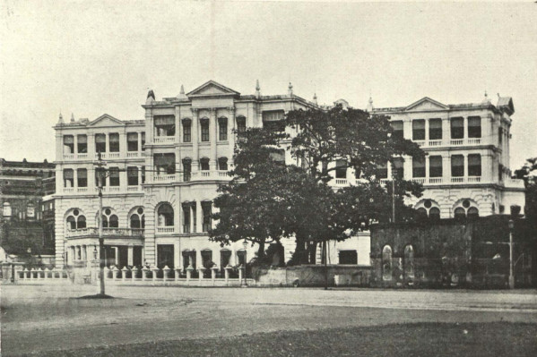 Said to be the handsomest and best appointed Club House in the East. Founded in 1845.